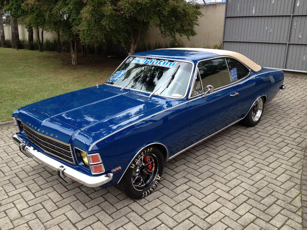 Chevrolet Opala Comodoro 1978